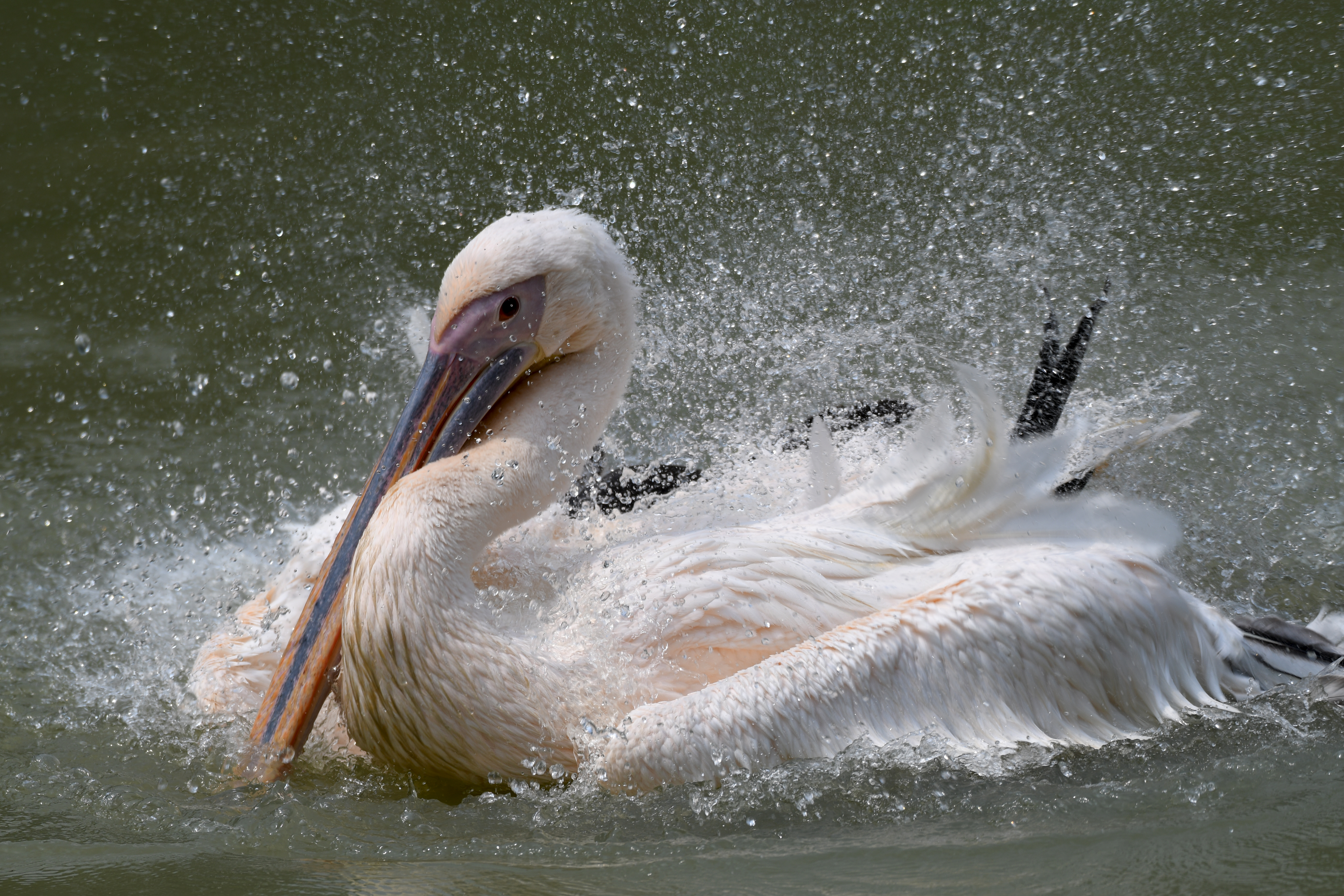 Pelicans are a genus of large water birds that make up the family Pelecanidae, Bangabandhu Sheikh Mujib Safari Park